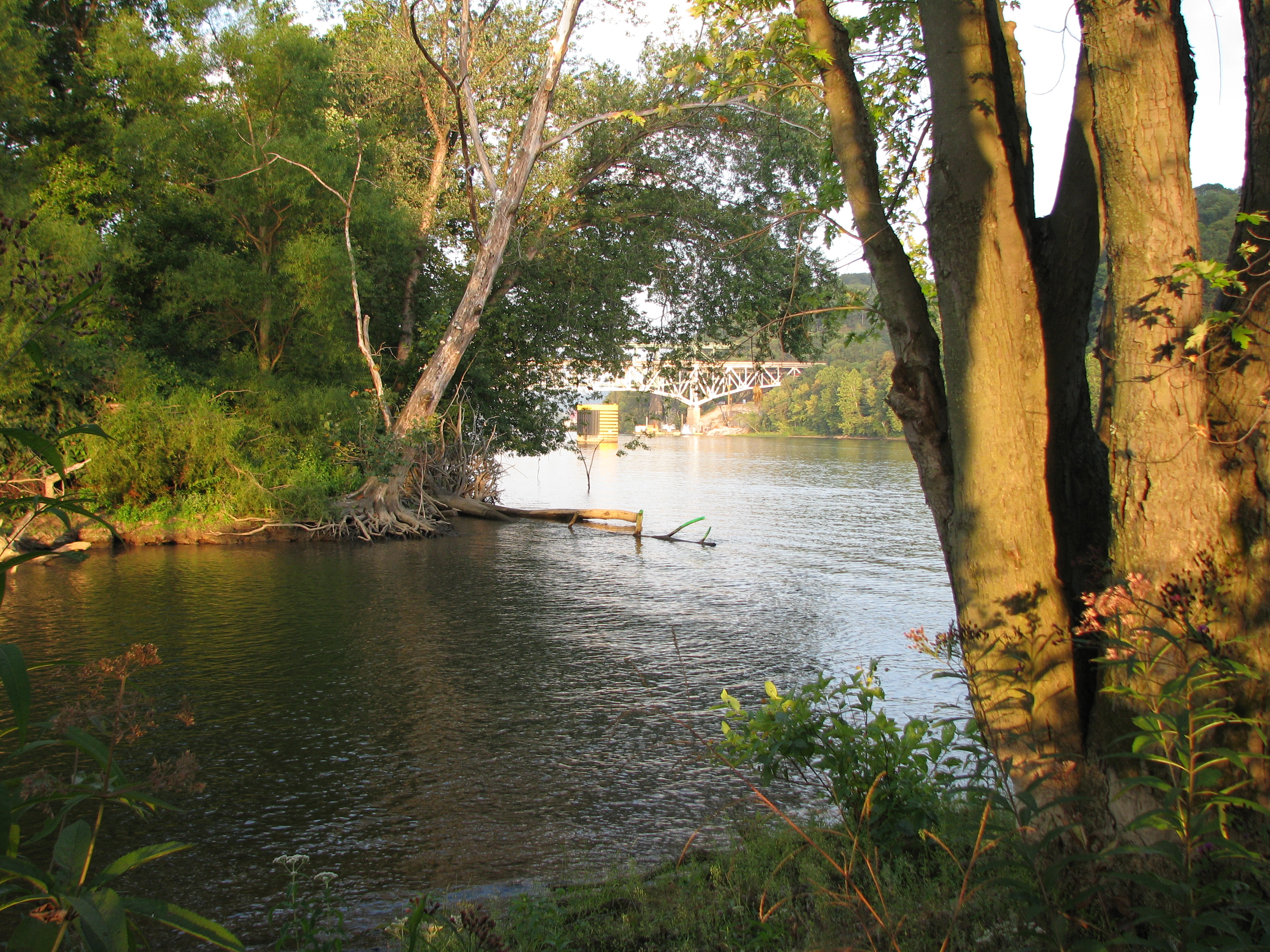 This was one of our last parks we visited. I rowed the boat up river one mile with Rachel and two dogs inside. Proof that we would do anything to step foot in all 120 parks in one Summer. This is the only park not accessable by car.